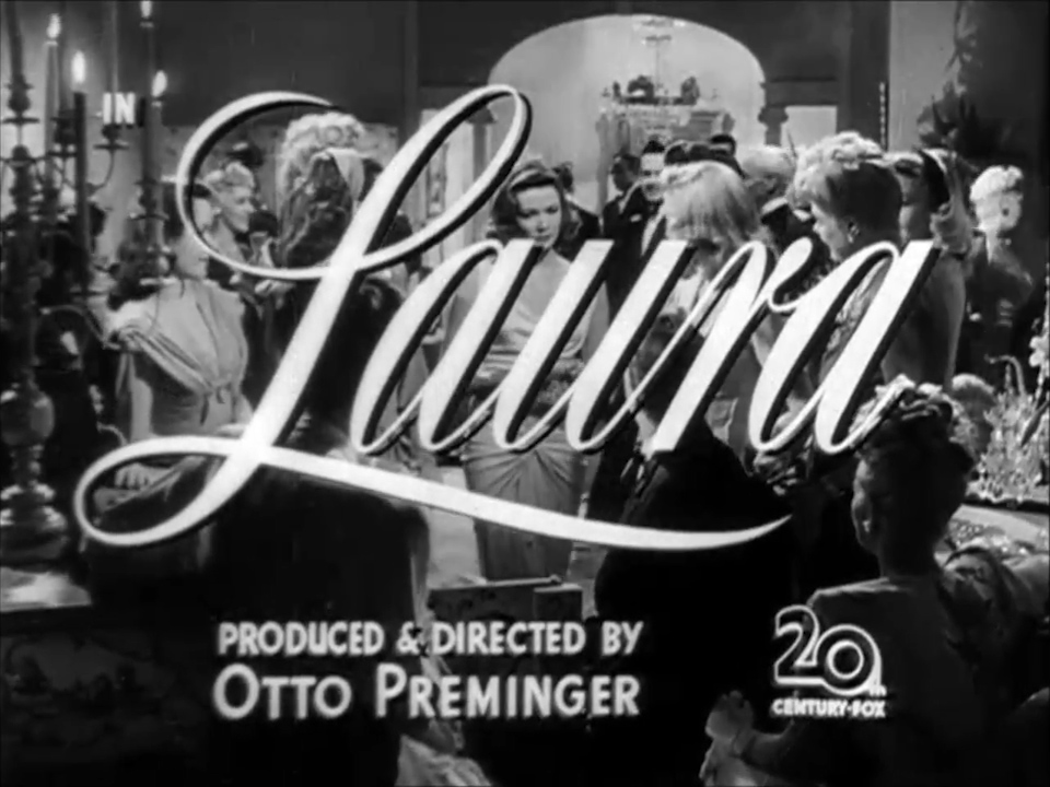 Screenshot of the trailer of the film Laura.